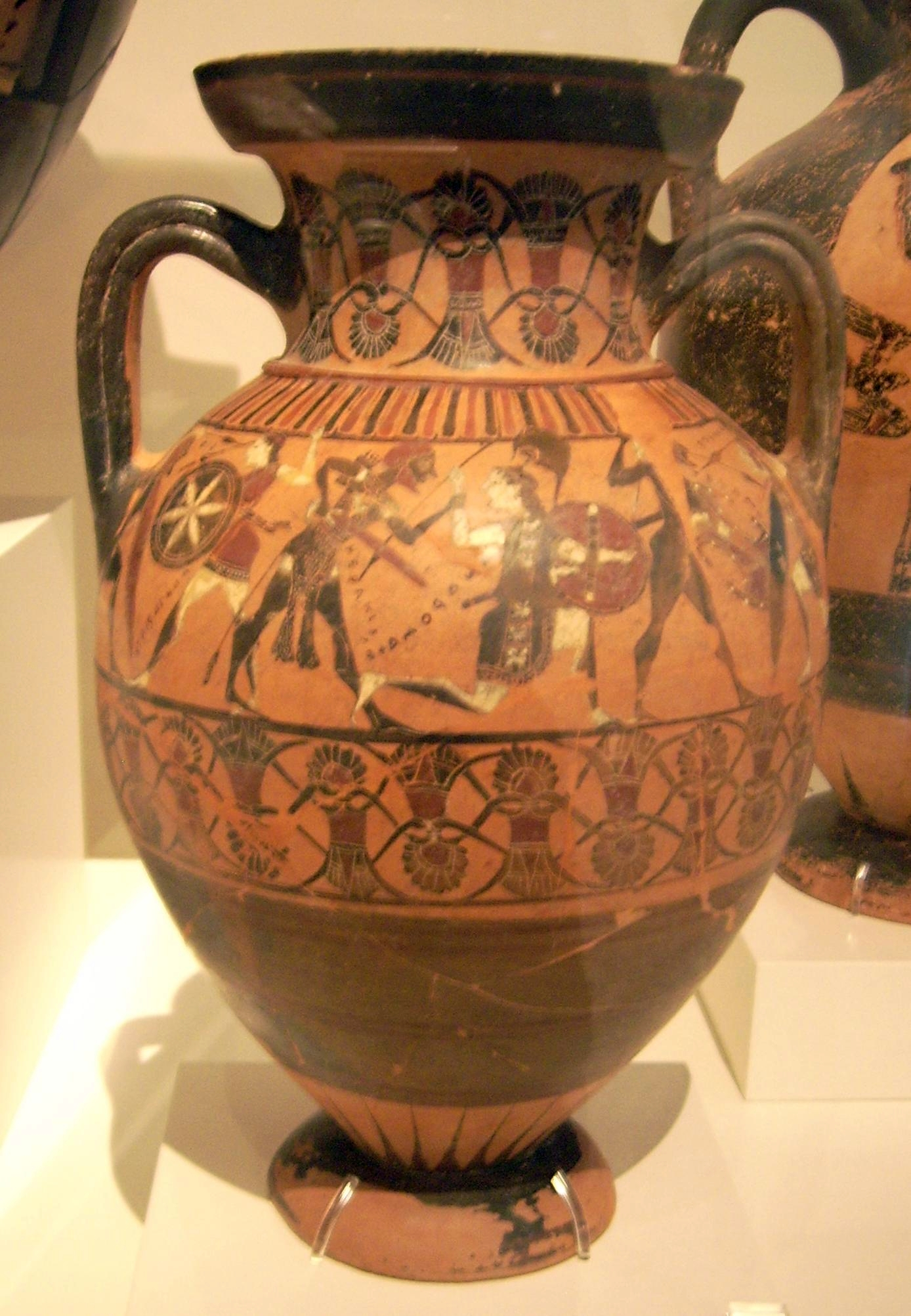 Attic black-figure tyrrhenian amphora by the Prometheus Painter; Site A: Amazonomachy - Herakles fights Andromache, Telamon fights Ainipe and Iphis fights Panariste, Site B: four horseman (Nikias, Oiniades, Kalias, Ischipias); unknown provenance; about 550 BC.; National Archeological Museum Athens (27524)